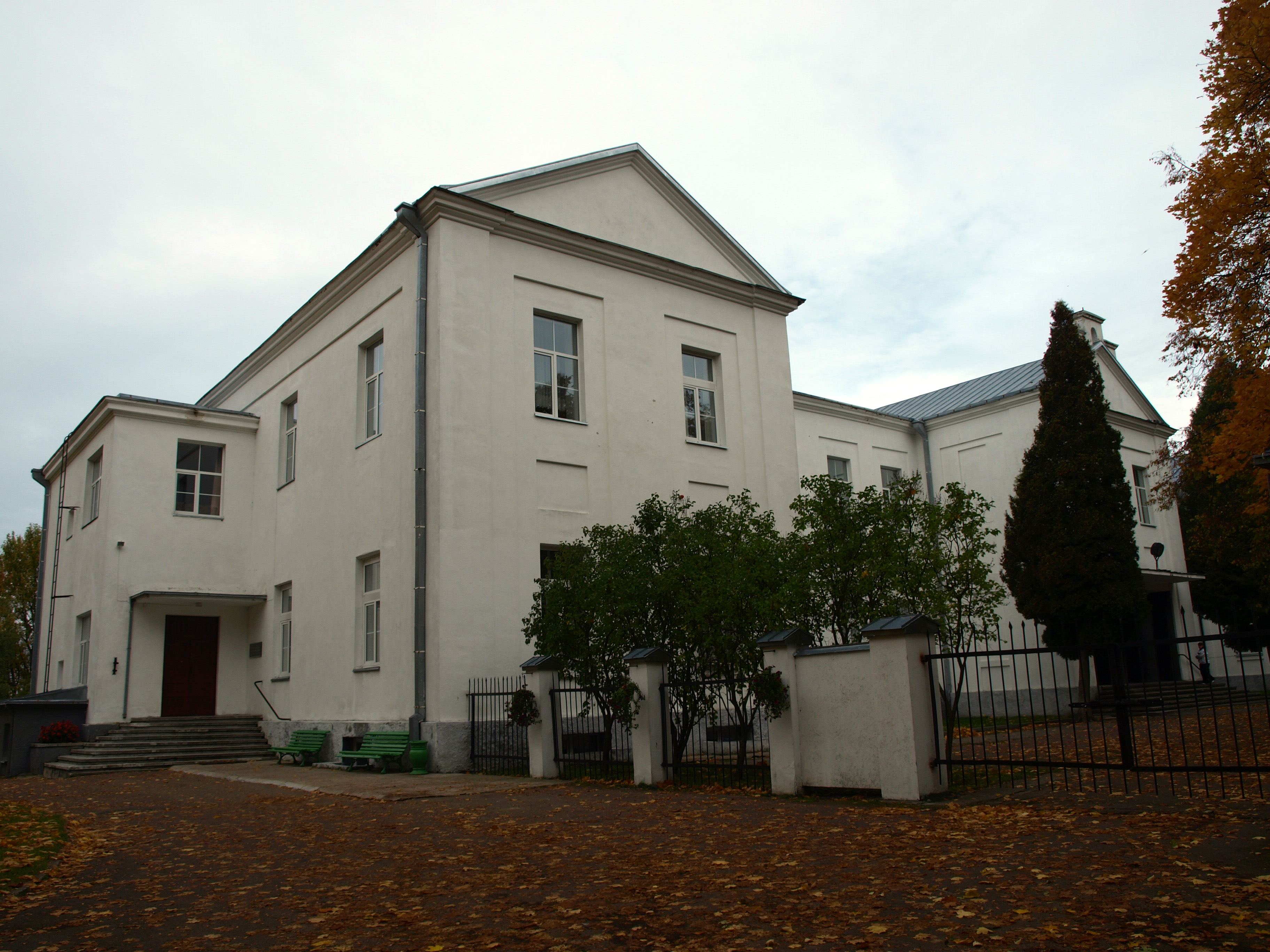 Mūro Strėvininkai manor, XIXth